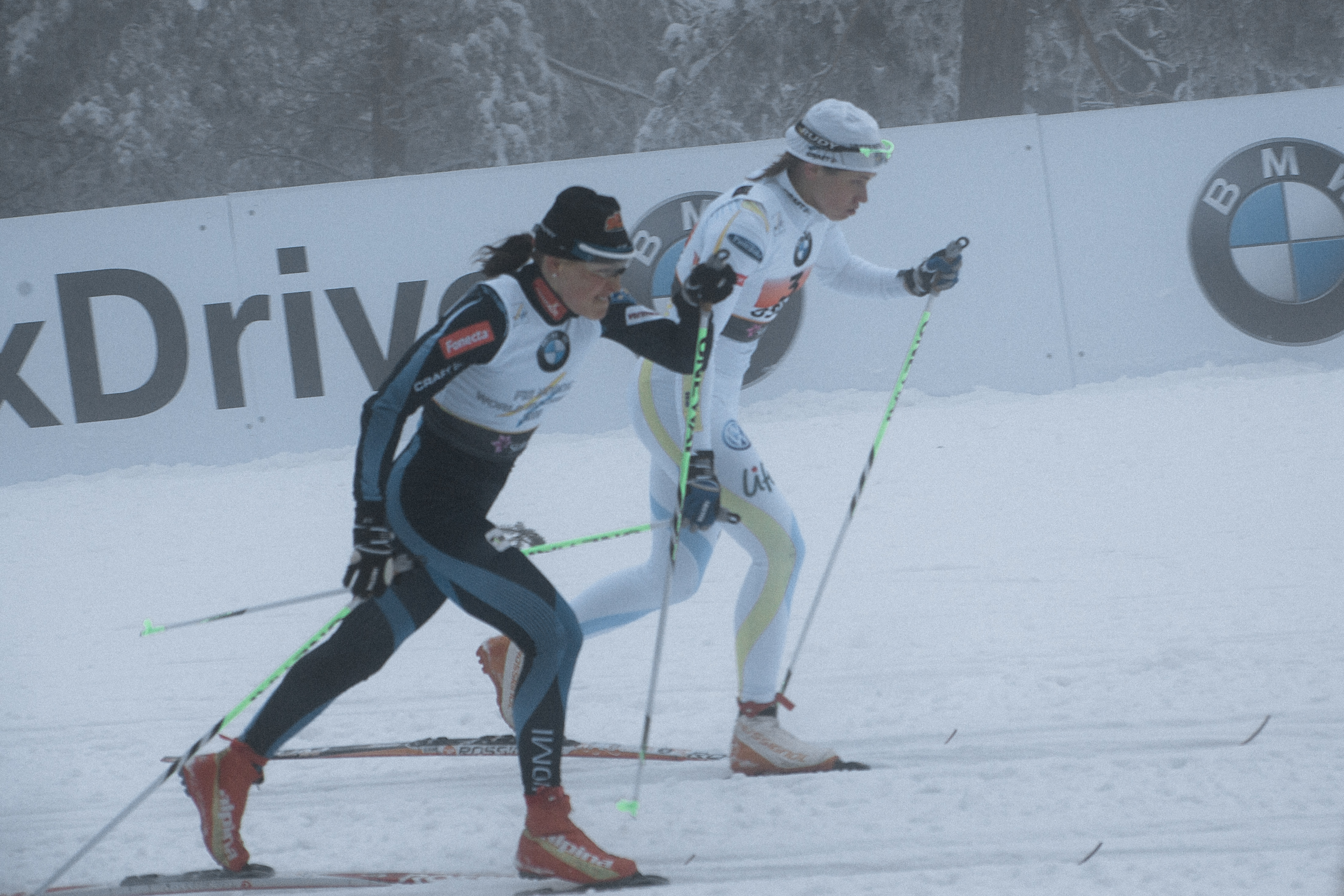 Aino-Kaisa Saarinen, Finland and Ida Ingemarsdotter (white suit), Sweden battle for the lead in the women's team sprint final, at the 2011 FIS Nordic World Ski Championships in Oslo, Norway.